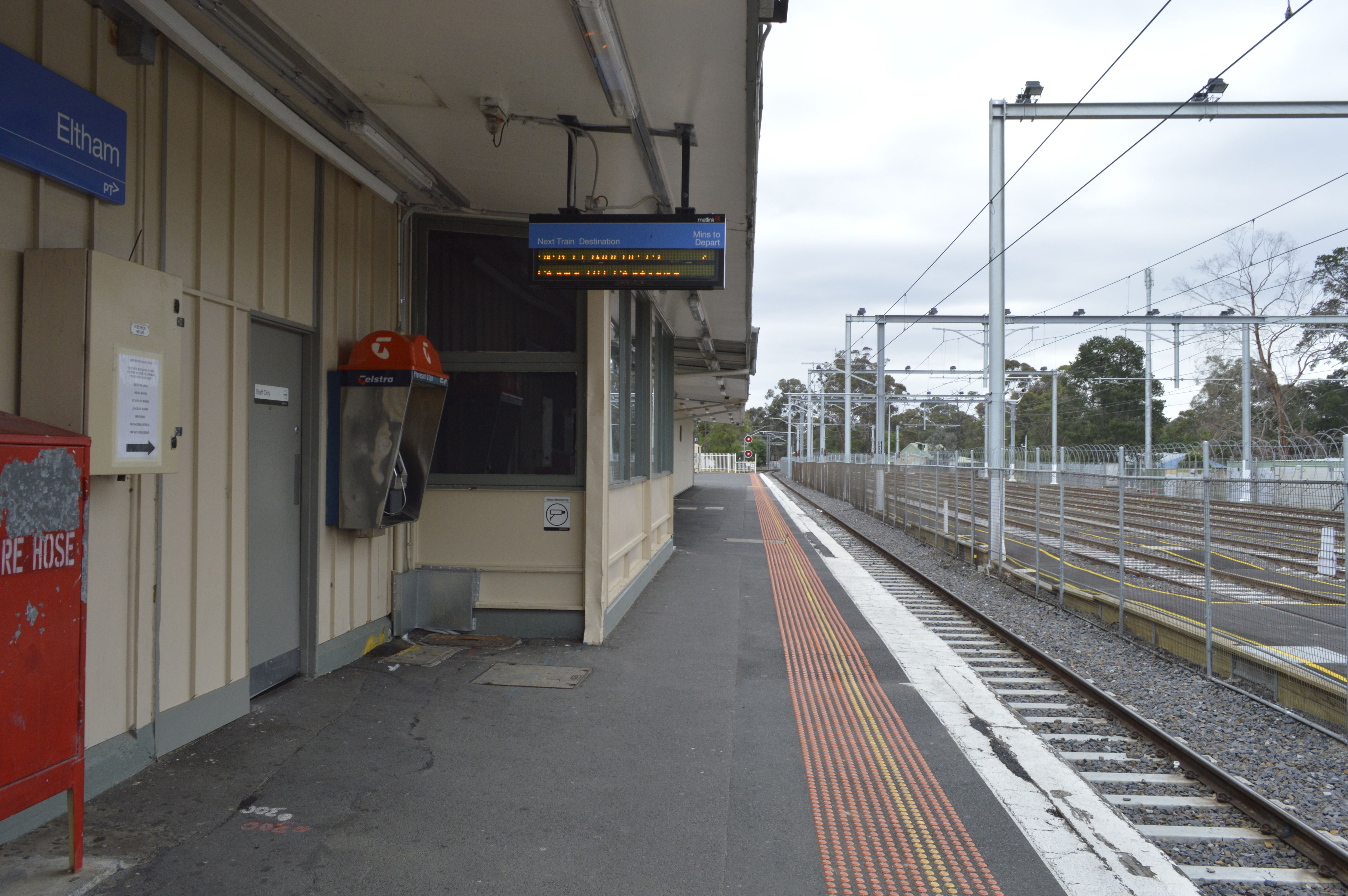 Taken on platform 1 looking south.